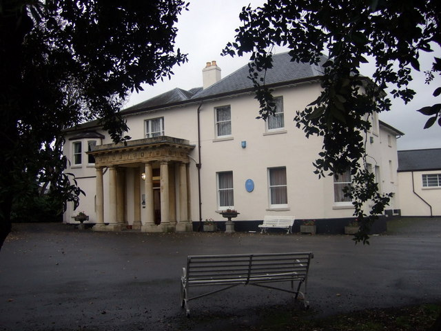 Roath Court C18 mansion at the junction of Newport Road and Albany Road; once the home of Lord Tredegar, now a funeral parlour.